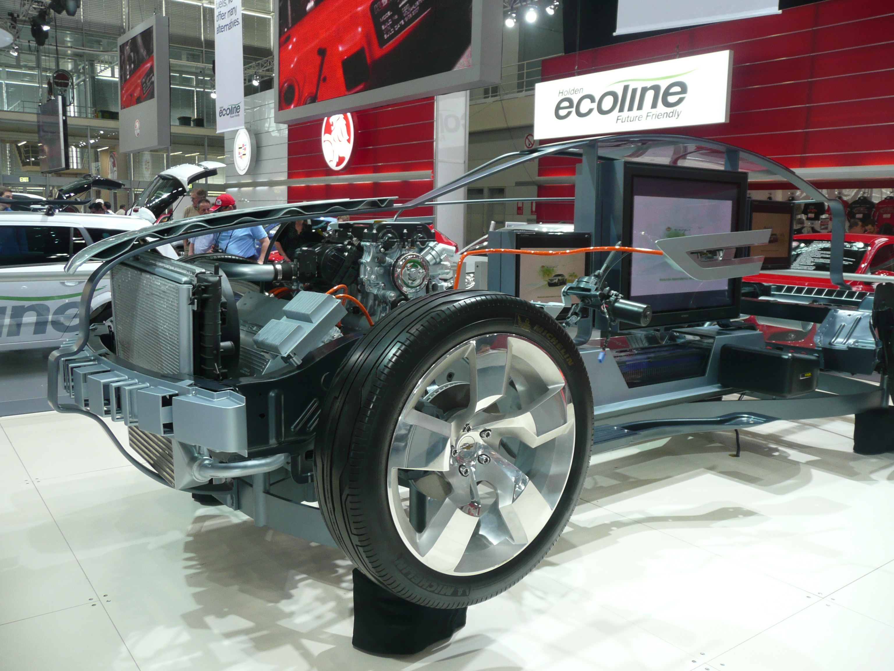 2008 Chevrolet Volt hatchback (concept). Photographed at the 2008 Australian International Motor Show, Sydney, New South Wales, Australia.